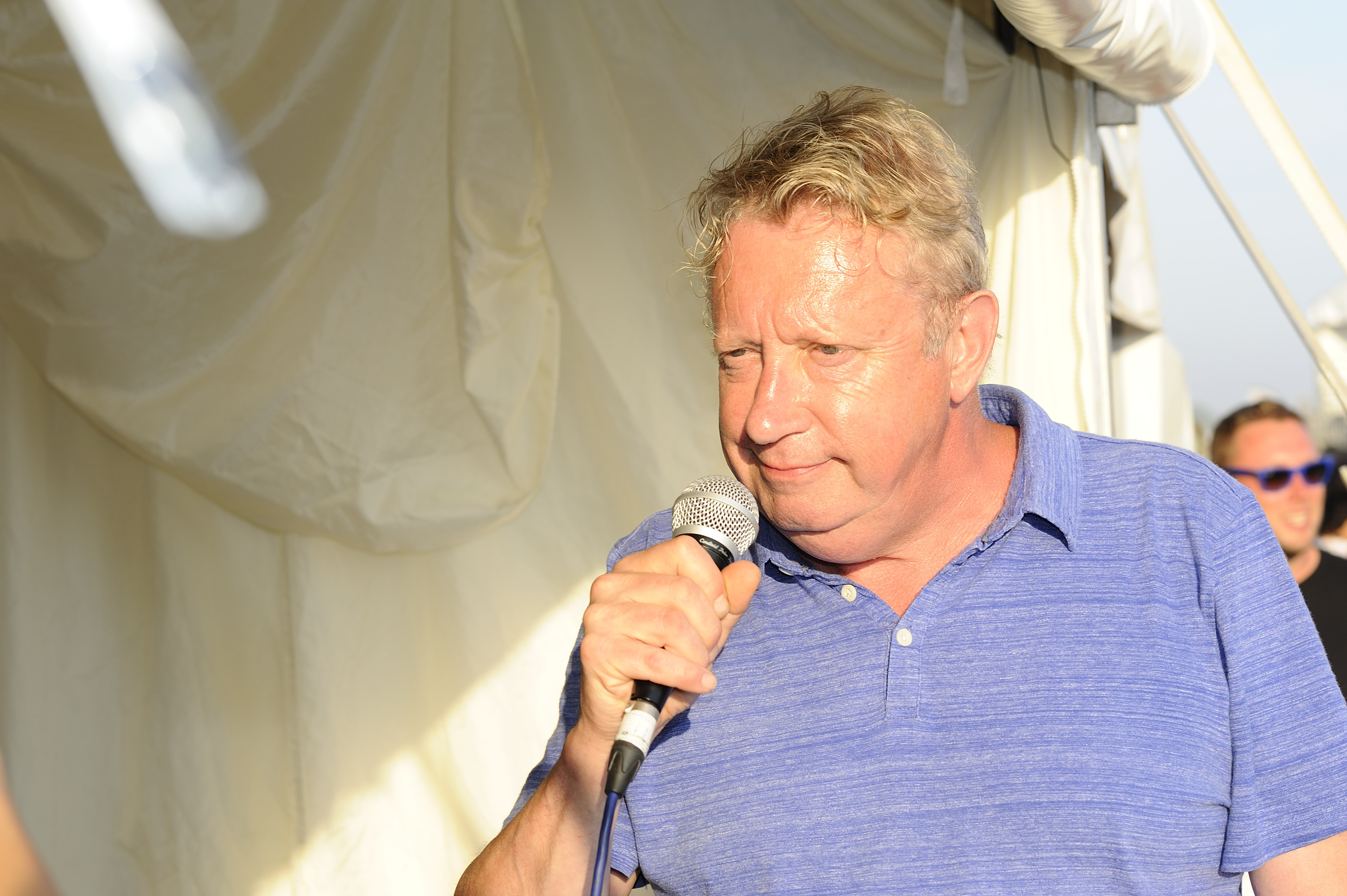 Mark Williams at Brighton Big Beach Screen Events 2017 (UK)